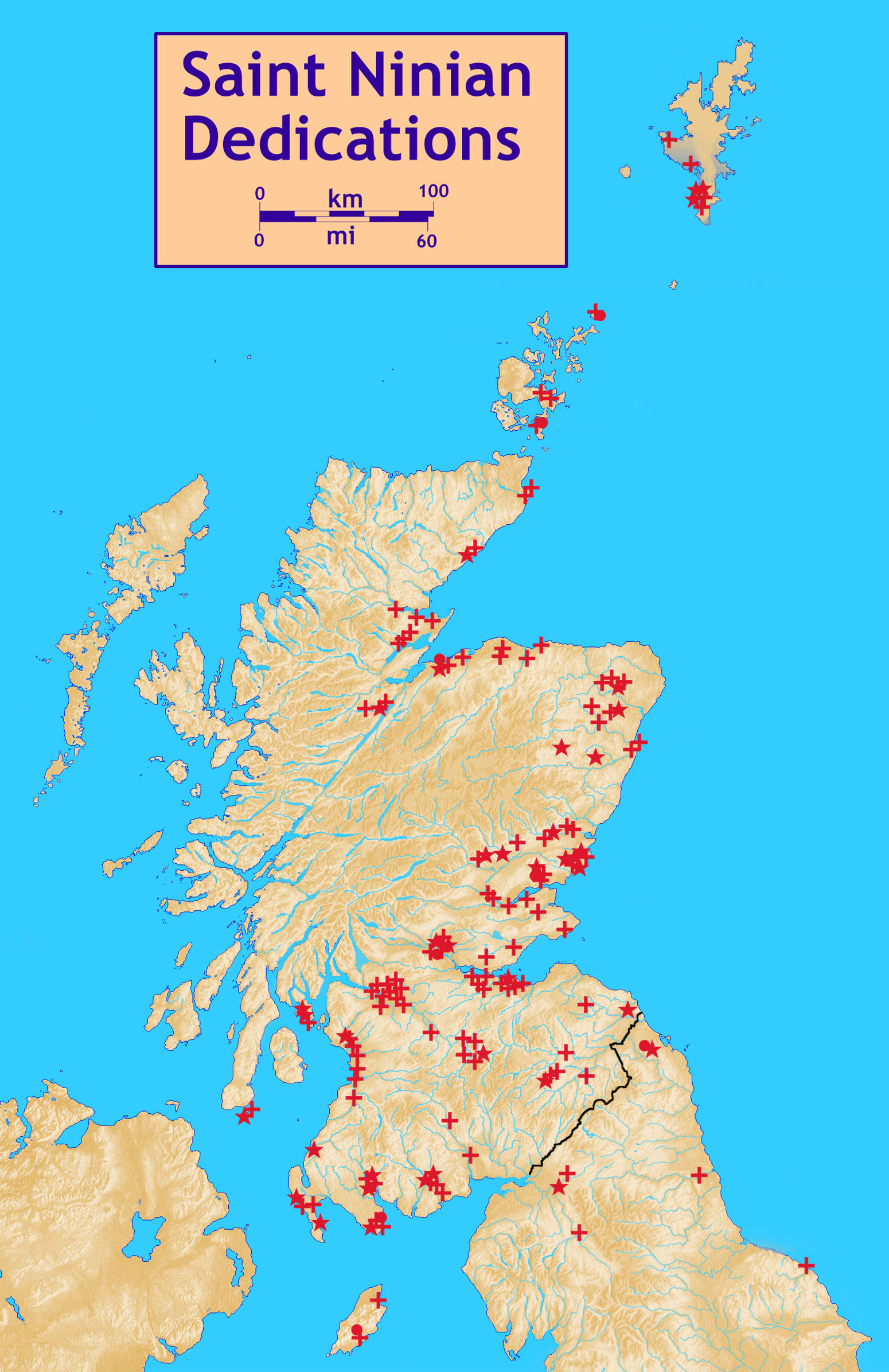 Locations of dedications to Saint Ninian (England, Scotland, Isle of Man)